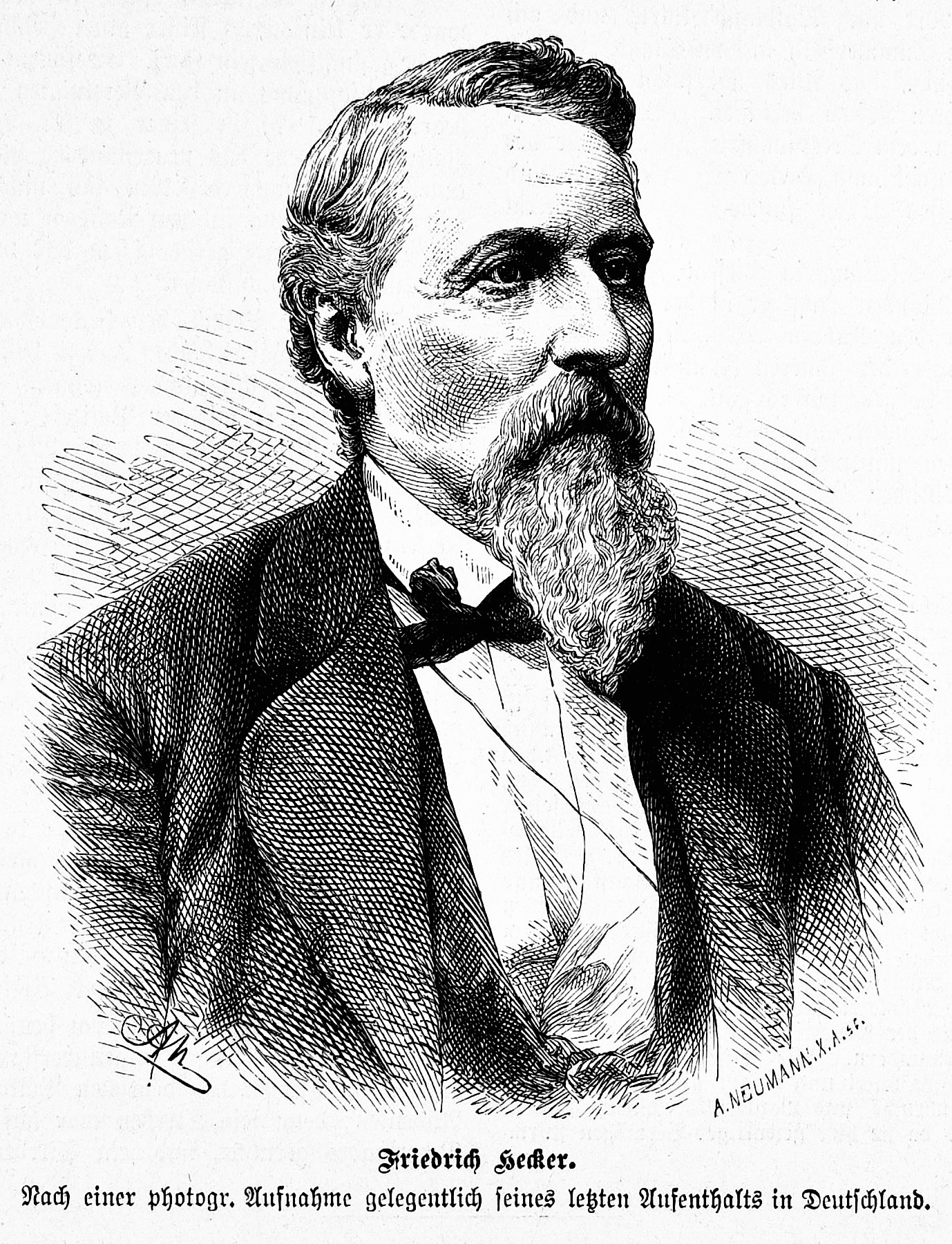 caption: "Friedrich Hecker. Nach einer photogr. Aufnahme gelegentlich seines letzten Aufenthalt in Deutschland"